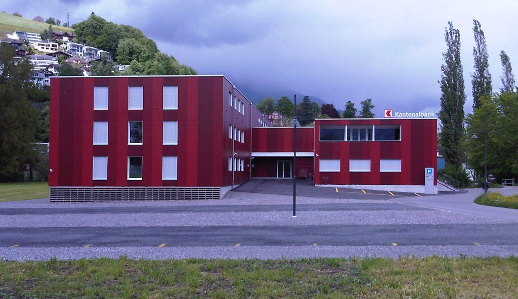 provisional headquarter of the Obwaldner Kantonalbank (OKB) since November 2012 in the Rütistrasse 8 in Sarnen